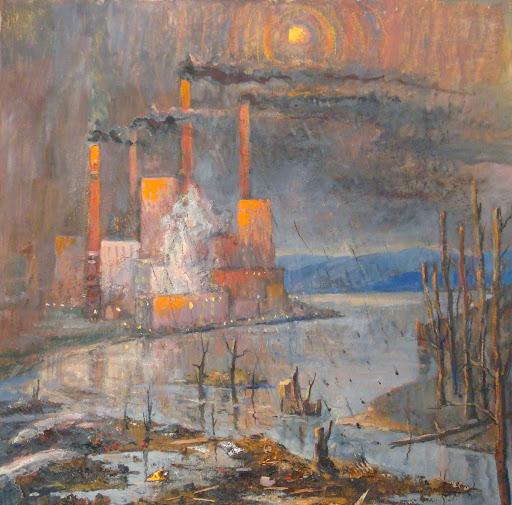 THe photo of the painting of VP Tomilovsky